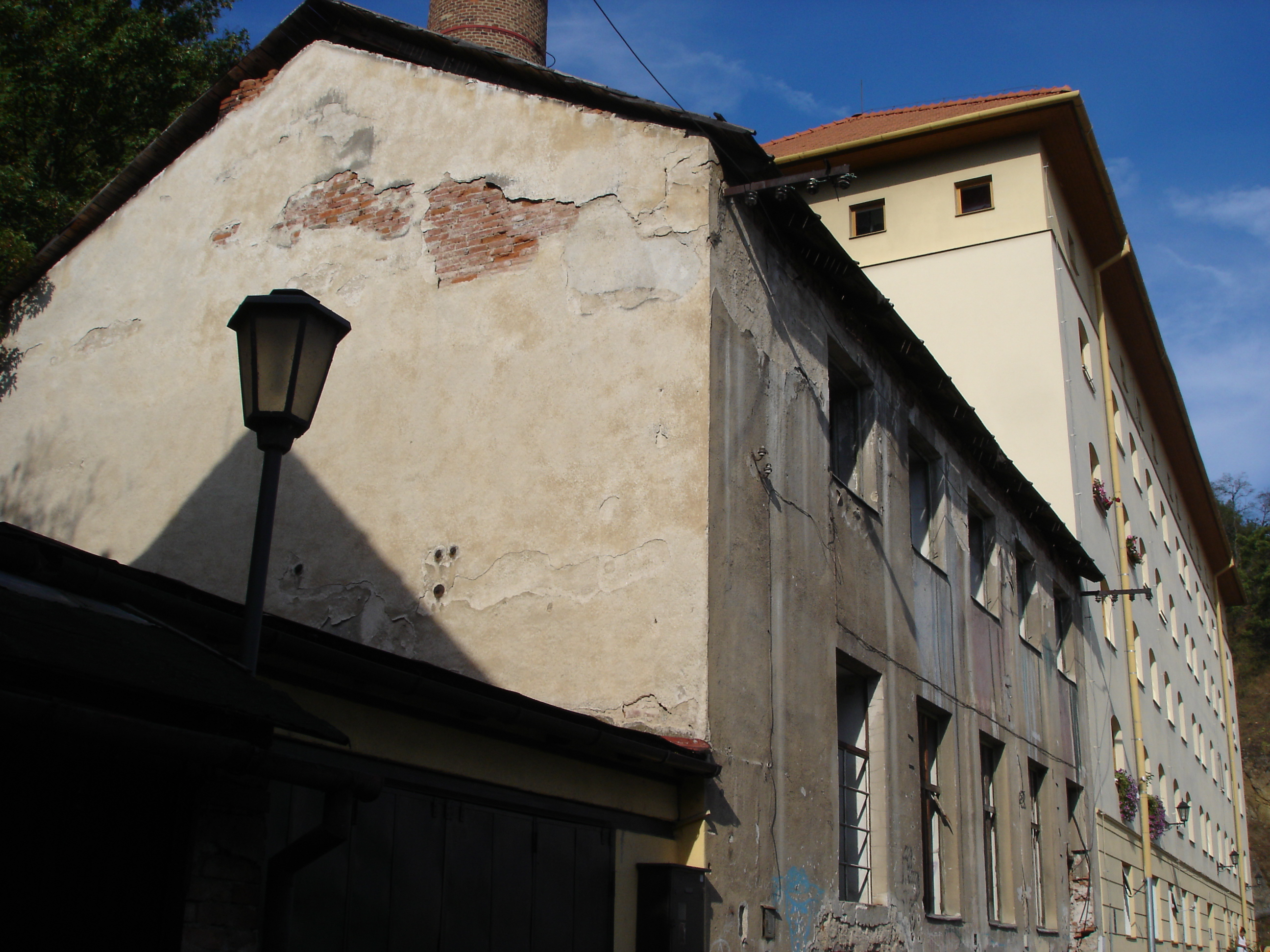 Subak's factory in Třebíč jewish quarter.